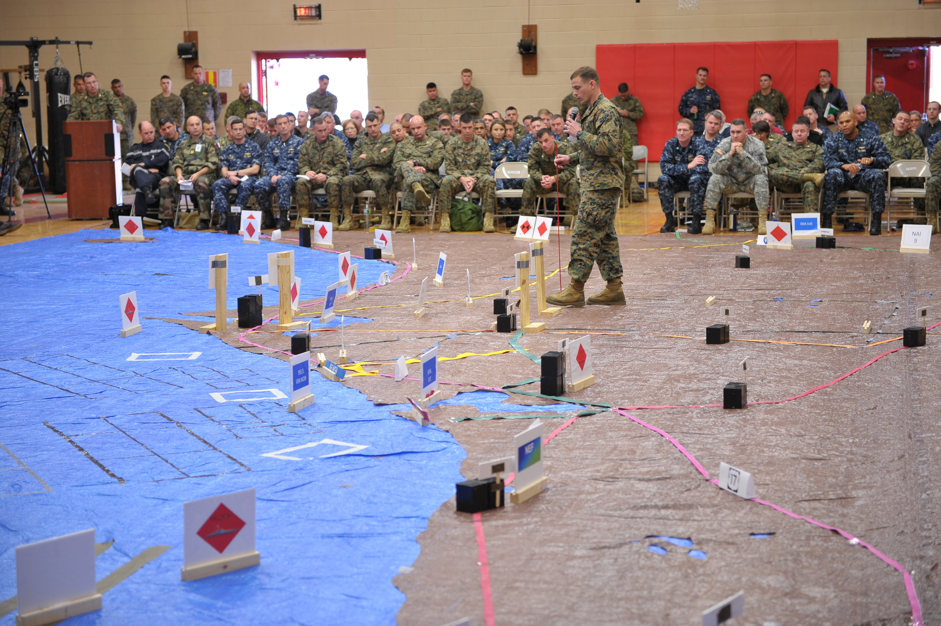 NORFOLK (Jan. 28, 2012) U.S. and coalition forces gather at the Camp Allen gymnasium to perform a rehearsal of concept drill to enhance the overall situational awareness of units participating in exercise Bold Alligator 2012. Bold Alligator is the largest naval amphibious exercise in the past 10 years and represents the Navy and Marine Corps' revitalization of the full range of amphibious operations. The exercise focuses on today's fight with today's forces, while showcasing the advantages of seabasing. The exercise will take place Jan. 30 through Feb. 12, 2012 afloat and ashore in and around Virginia and North Carolina. (U.S. Navy photo by Mass Communication Specialist 3rd Class Brandon Keck/Released)